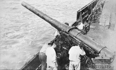 AWM caption : At sea. New Guinea. Five unidentified sailors prepare to test fire a 15 cm (5.9 inch) gun on board the German armed merchant raider, SMS Wolf. The ship's railing has been lowered on hinges allowing the gun barrel to protrude from the ship and was hidden under sheets of canvas when not in use, allowing the raider to be easily disguised as a merchant ship. This image is from a collection relating to the voyage of the German raider, SMS Wolf (II), and was taken by an unidentified crew member.